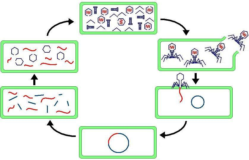 bacteriophage lysogenic and lytic cycle